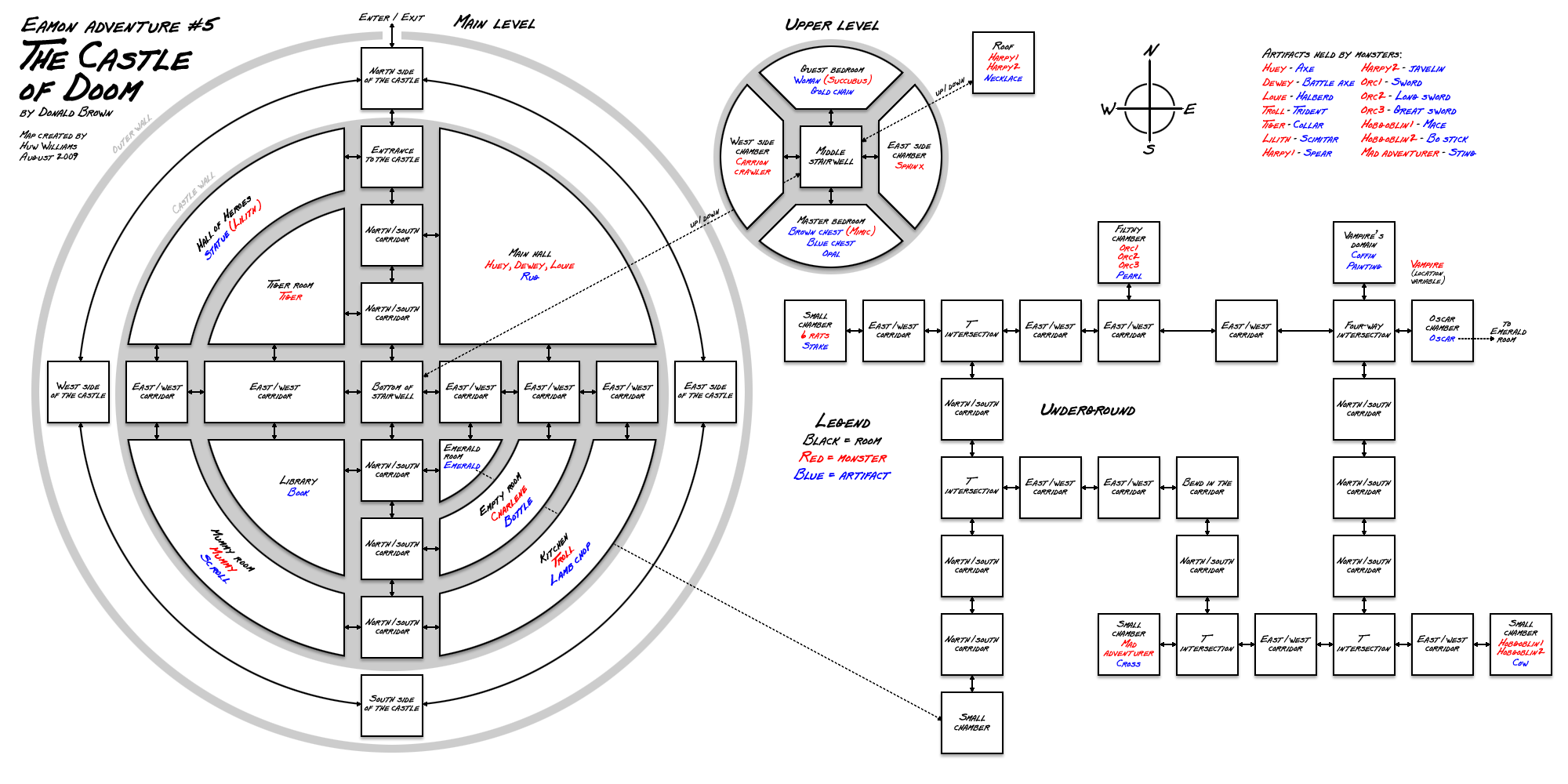 A user-created map of "The Castle of Doom" by Donald Brown, the fifth adventure in Brown's Eamon text adventure series for the Apple II computer. Map created by Huw Williams, August 2009.